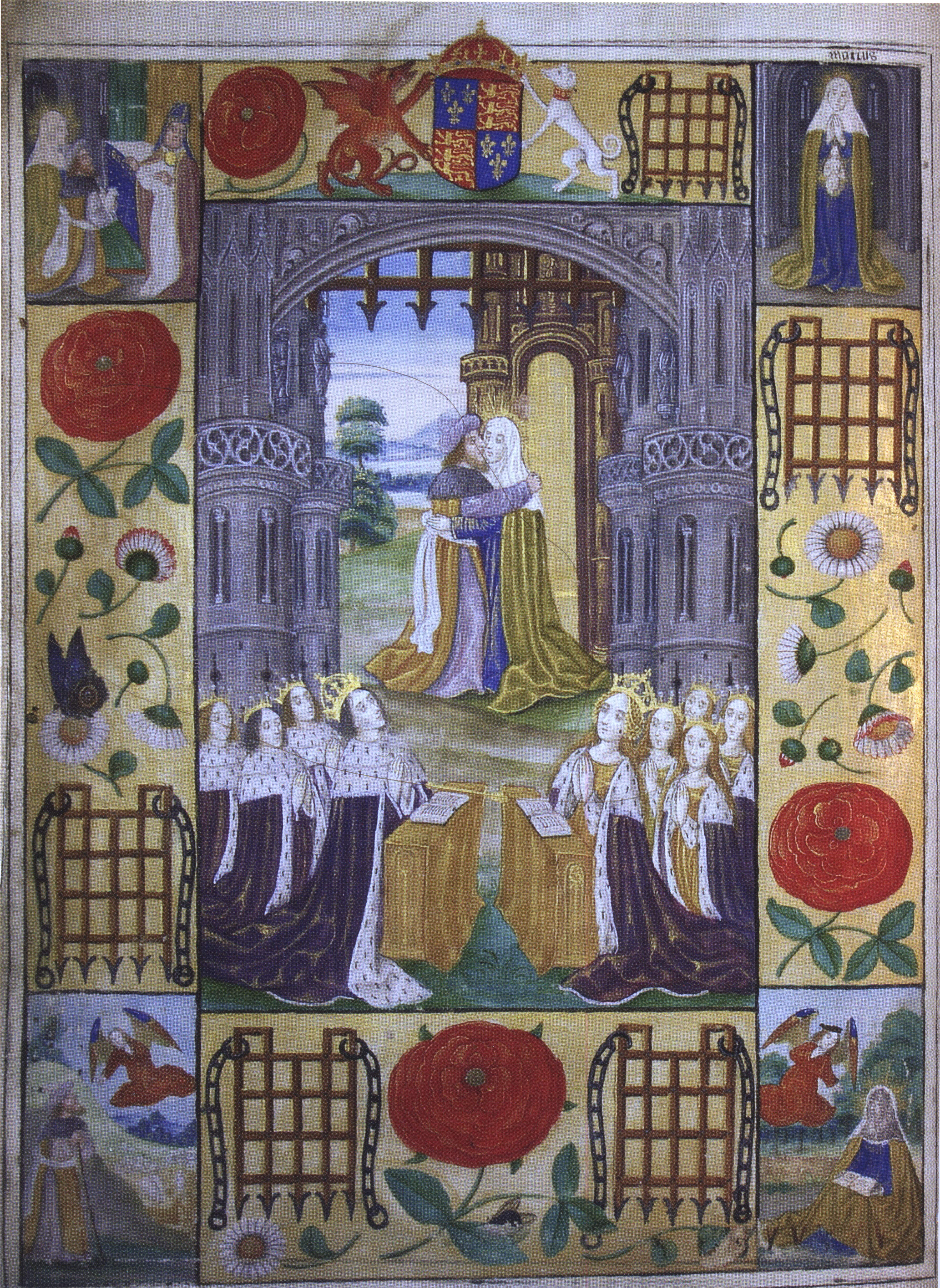 The family of Henry VII with Joachim and Anne meeting at the Golden Gate, illuminated page, 35.3 x 25 cm. The flowers are Marguerites (daisies), for Lady Margaret Beaufort, mother of King Henry VII. Red Rose of Lancaster - Lady Margaret Beaufort was the daughter and sole heiress of John Beaufort, Duke of Somerset (1404–1444), a legitimised grandson of John of Gaunt, 1st Duke of Lancaster (third surviving son of King Edward III) by his mistress Katherine Swynford. Beaufort Portcullis, badge of Beaufort.